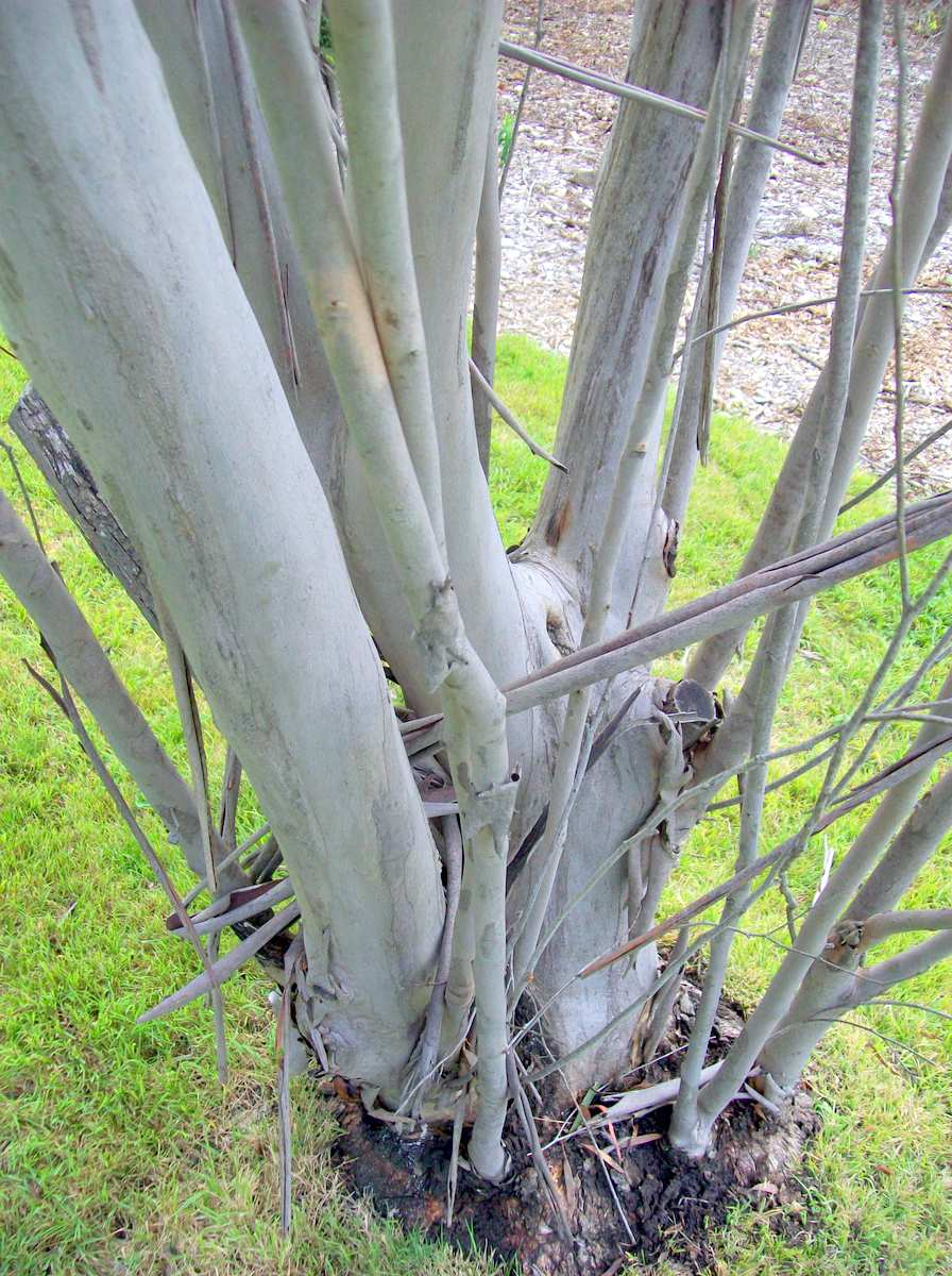 Eucalyptus kybeanensis labeled at the Mount Tomah Botanic Gardens, Australia